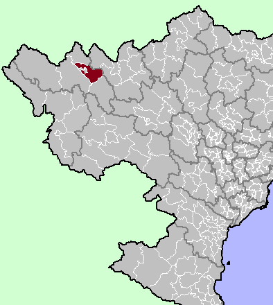 Tam Duong District, Lai Chau Province, Vietnam.